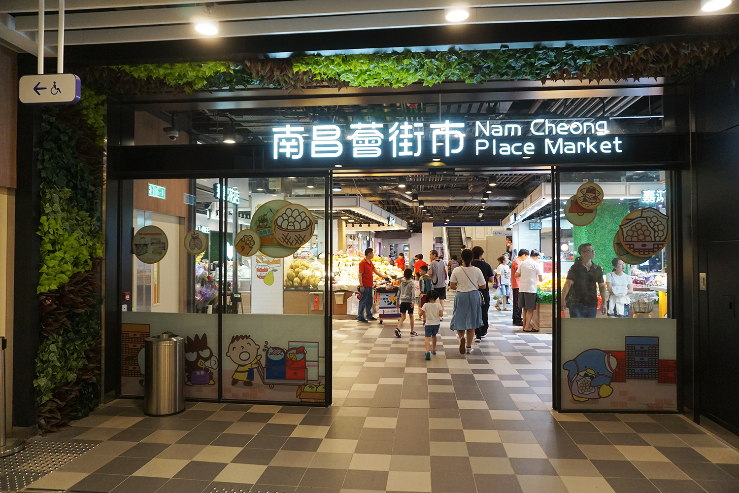 Nam Cheong Place Market in Sham Shui Po, Hong Kong.